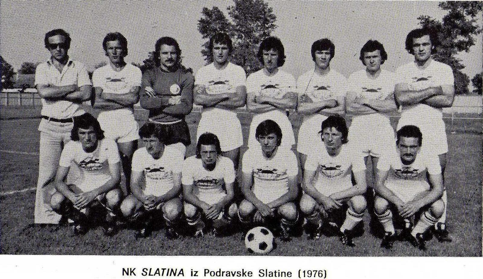 Sastav nogometnok kluba Slatina iz 1976 godine. Stoje: I.Knežević(trener), Borislav Radanović, M.Naumovski, S.Erceg, Z.Mrva, N.Novaković, A.Kolembus, T.Kosanović Čuče: Ivan Lah, M. Kujević, T.Radaković, M.Predragović, M.Vurdelja, Zdenko Tepeš